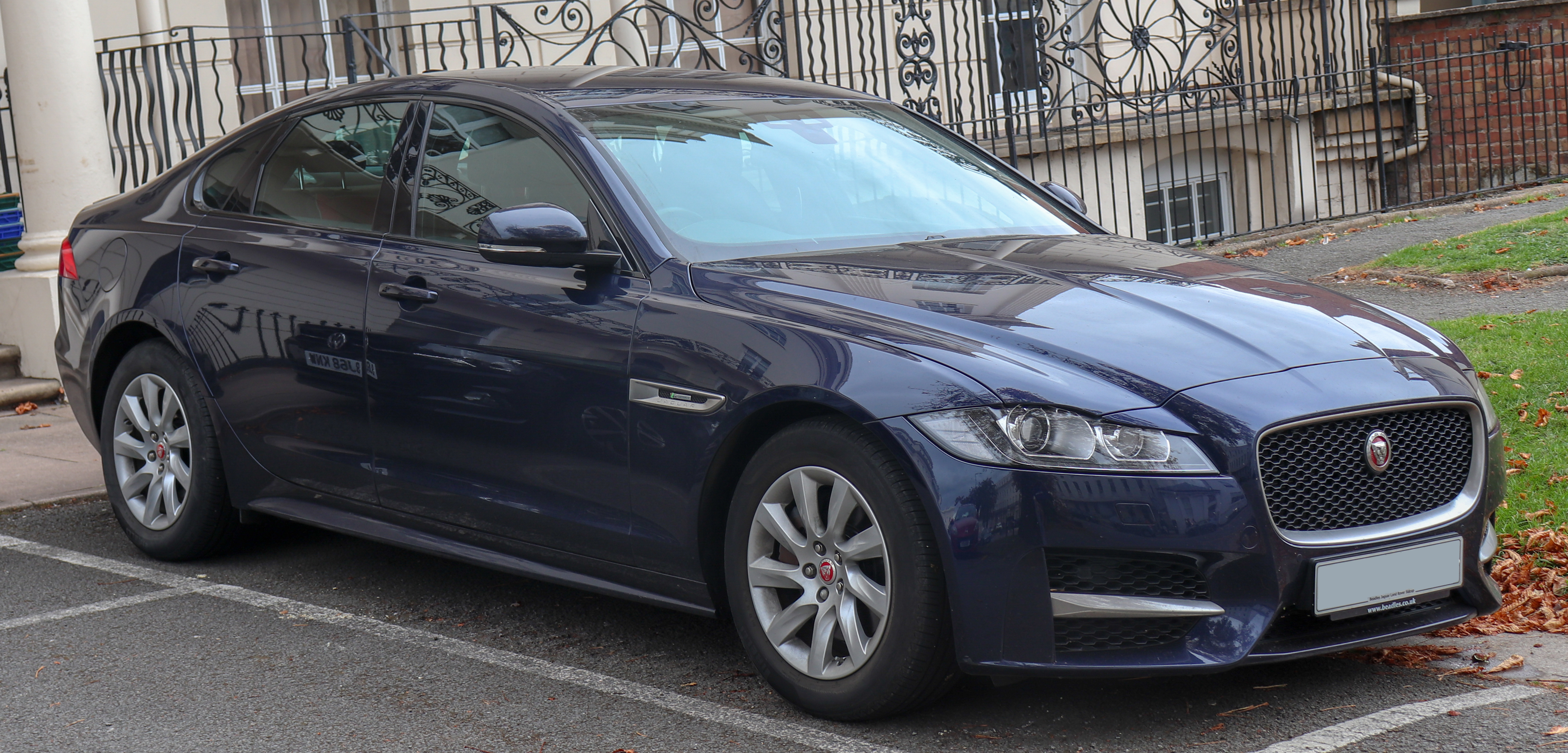 2016 Jaguar XF R-Sport Diesel Automatic 2.0 Taken in Leamington Spa